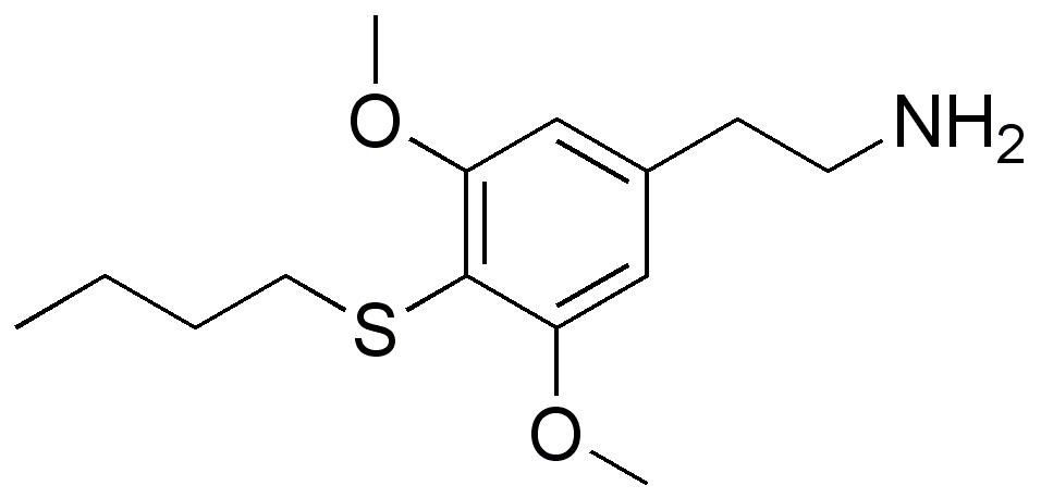 Chemical structure of Thiobuscaline, drawn in ChemDraw by User:Mark PEA.